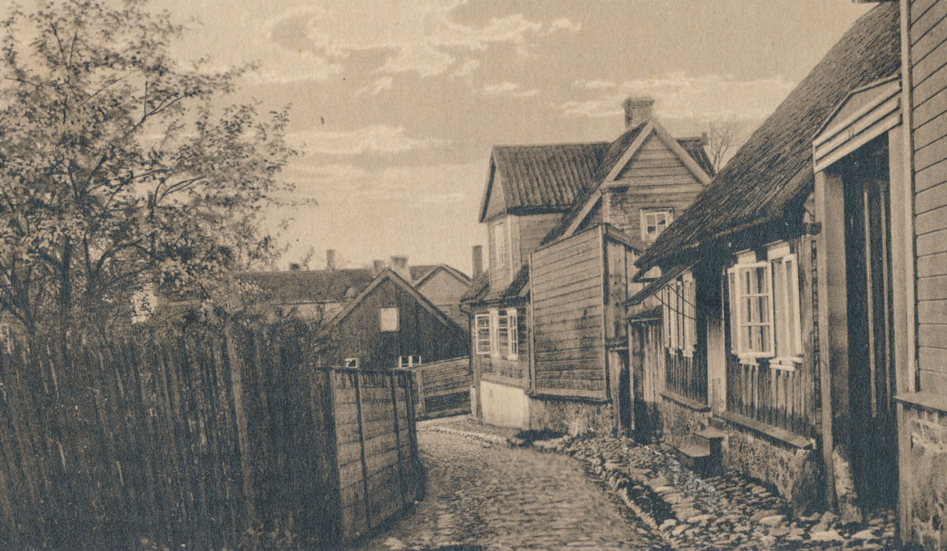 Oru street, Viljandi